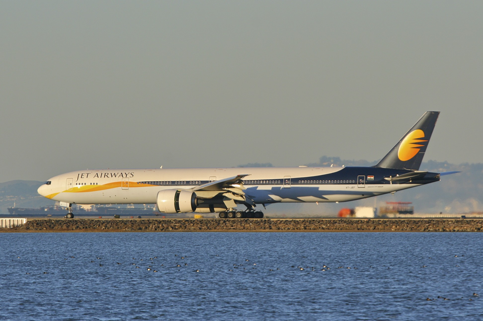 JAI210 arrives SFO Jet Airways – Boeing 777-300 ER